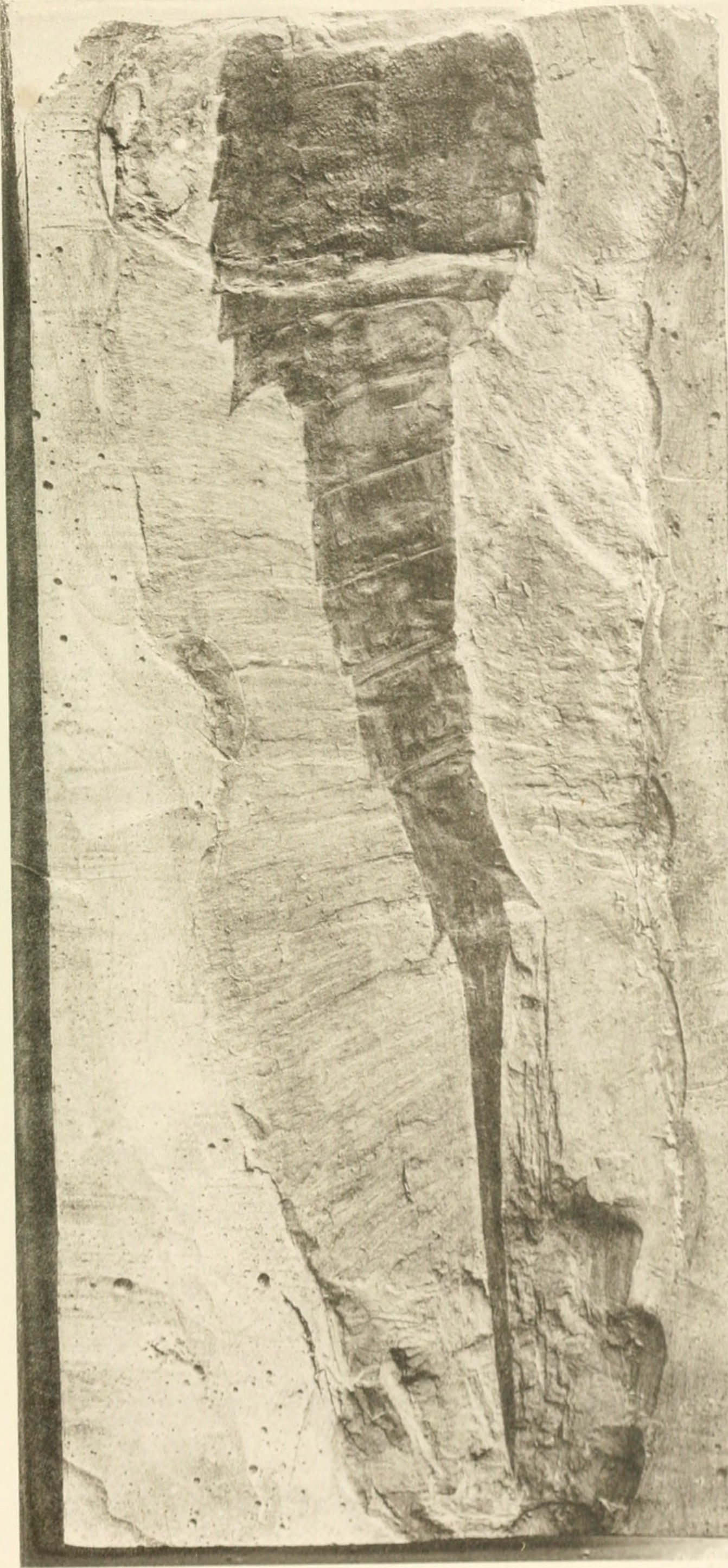 Title: Ceratiocaridæ from the upper Devonian measures in Warren County Year: 1884 (1880s) Authors: Beecher, Charles Emerson, 1856-1904; Hall, James, 1811-1898 Subjects: Fishes, Fossil; Eurypterida; Paleontology -- Pennsylvania; Paleontology -- Devonian; Paleontology -- Carboniferous Publisher: Harrisburg : Pub. by the Board of Commissioners for the Second Geological Survey Text Appearing Before Image: ' Text Appearing After Image: '